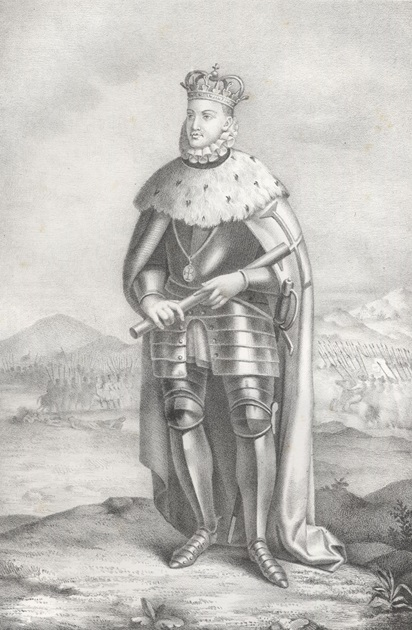 Galeria dos Reis de Portugal (Lisboa R. N. dos M.es 2 a 4 : Lith. de Lopes). - 27 gravuras : litografia, p&b